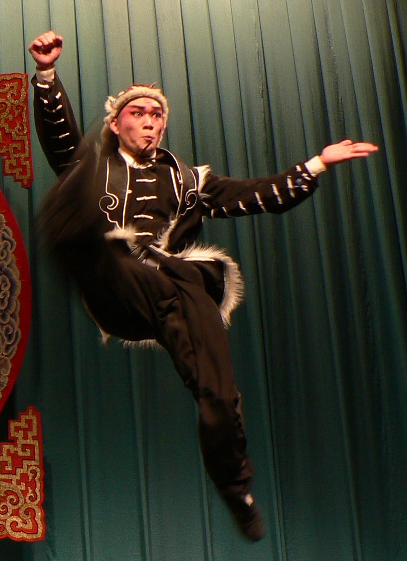 Taipei Eye: the Master of the Horses jumping